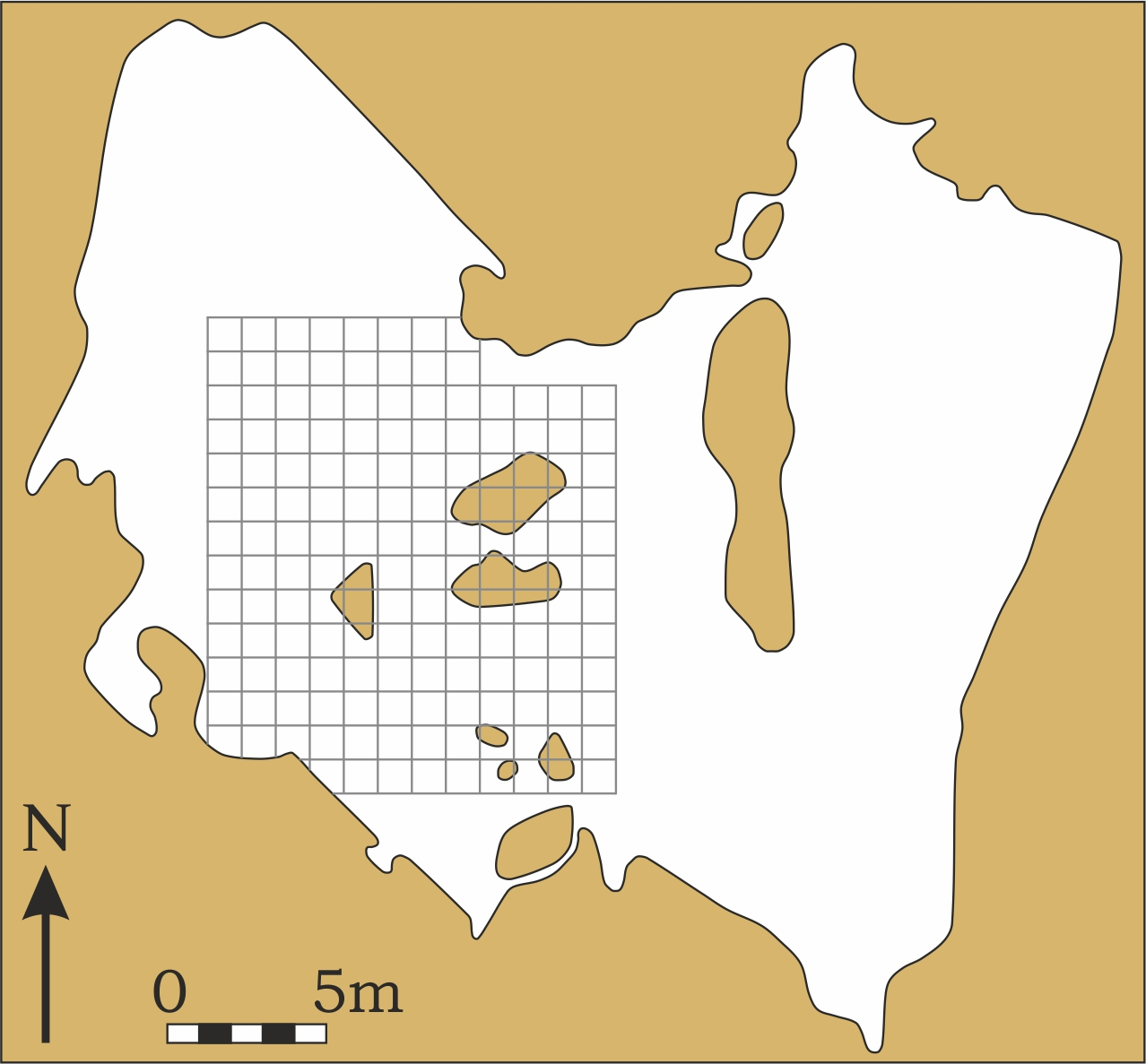 A plan of the Swartkrans Cave (Gauteng, South Africa) showing the excavation grid of C. K. Brain.